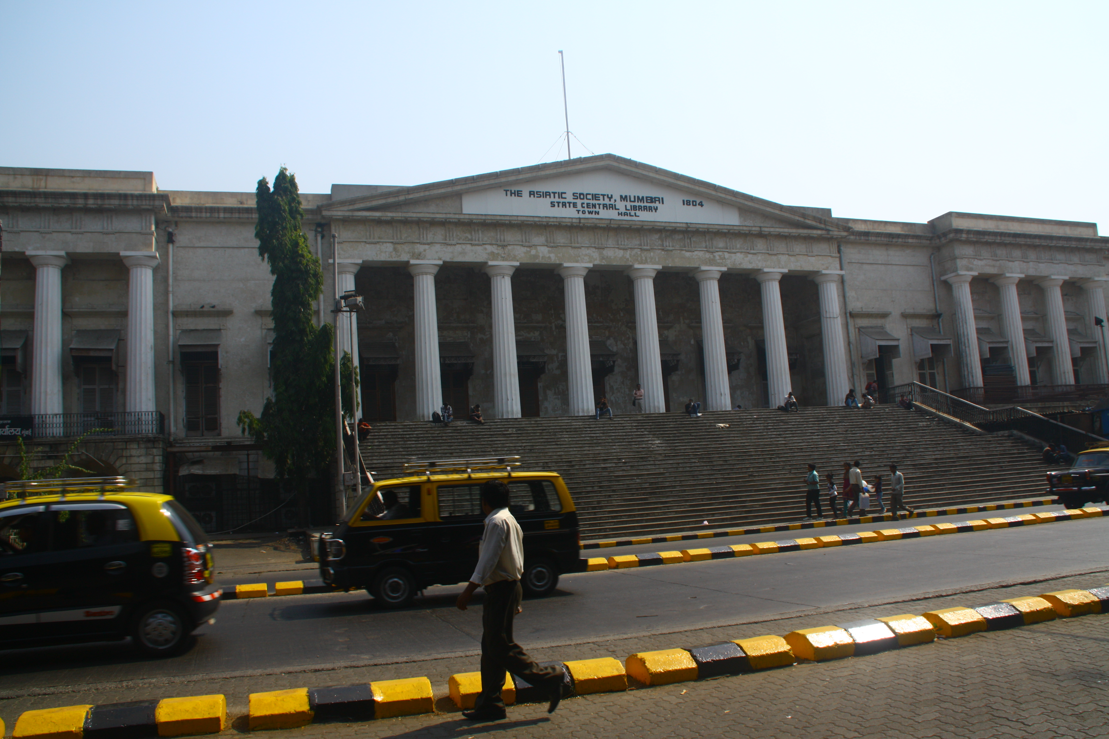 Town Hall, State Central Library, The Asiatic Society, Mumbai